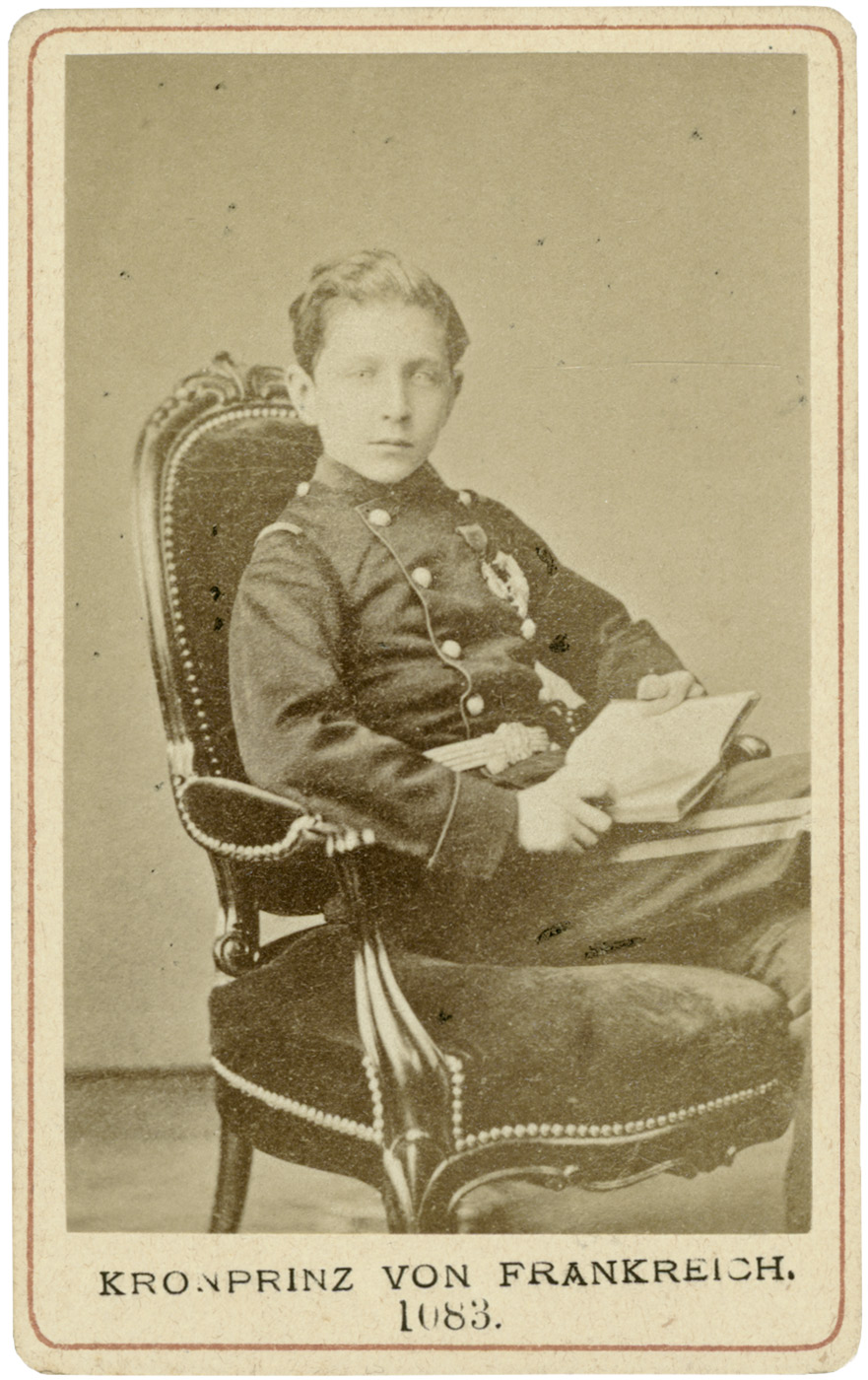 Albumen carte-de-visite, from an album of portraits of high ranking German and French nobelmen and generals. 1870s/80s. 10,2 x 6,5 cm.